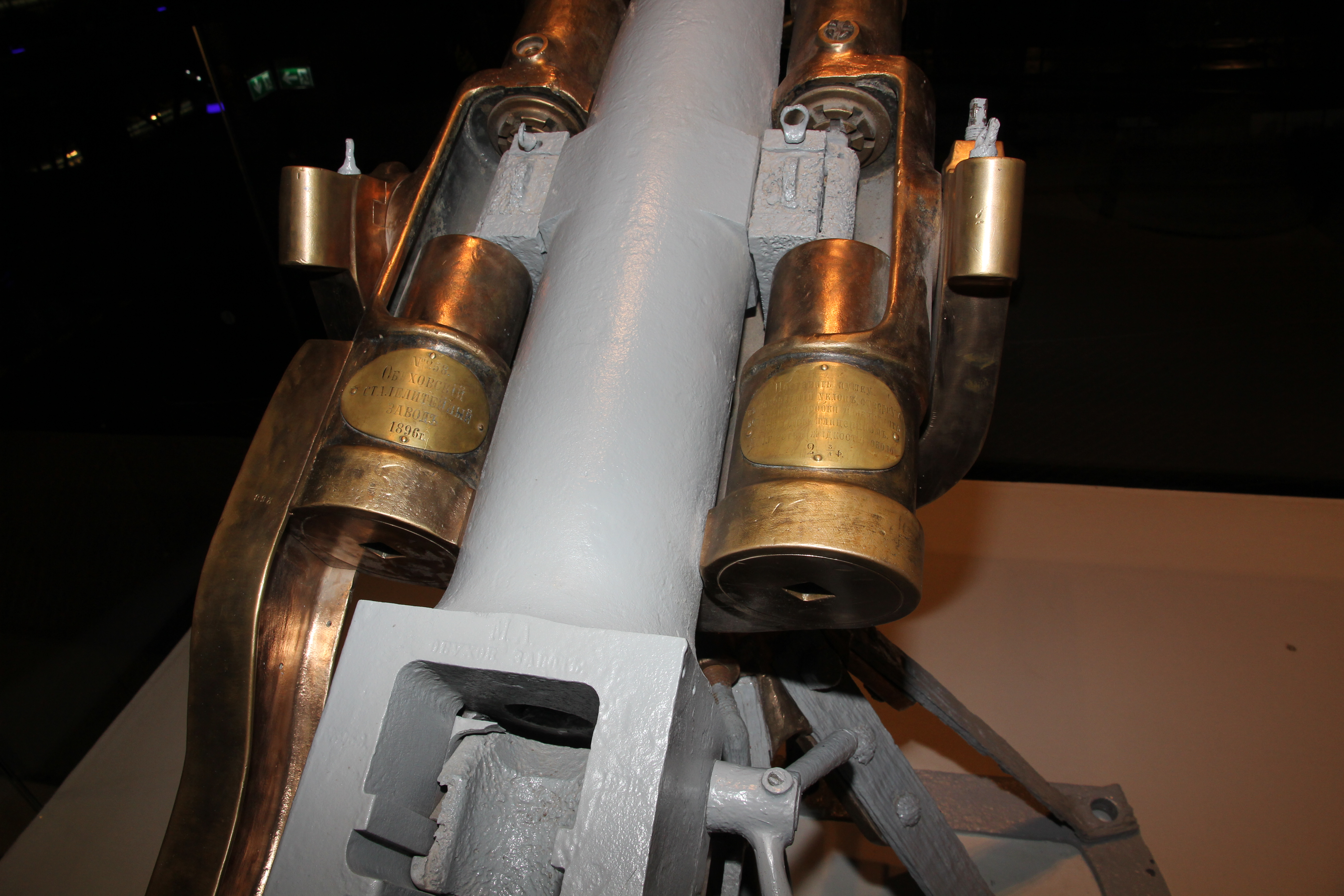 Imperial Russian 47 mm Hotchkiss naval gun in Lennusadam maritime museum. This particular gun was salvaged in 2002 from the wreck of Russian minesweeper no. 4 (former Dago), torpedoed during the First World War.